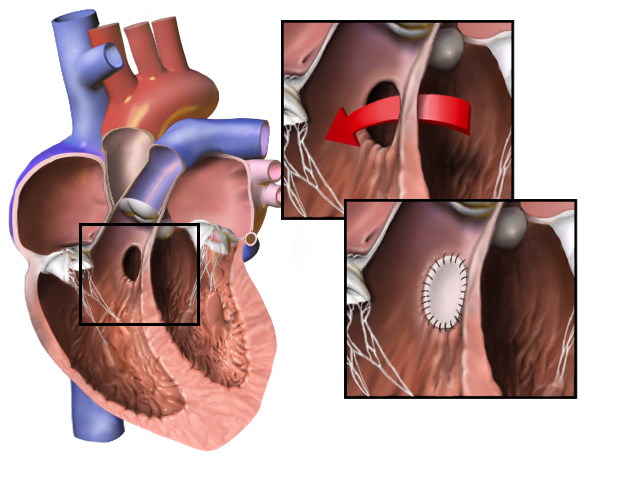 A medical illustration depicting